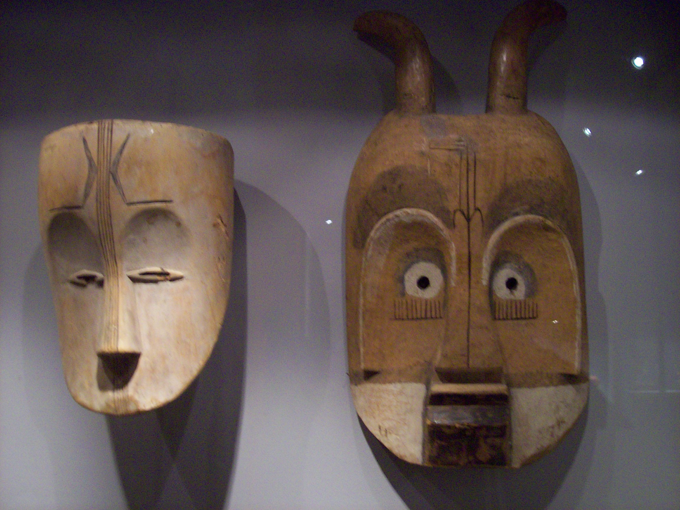 State Museum of Ethnology in Munich, permanent African exhibition left mask from Gabon (Fang) right mask from Cameroon (Bulu)